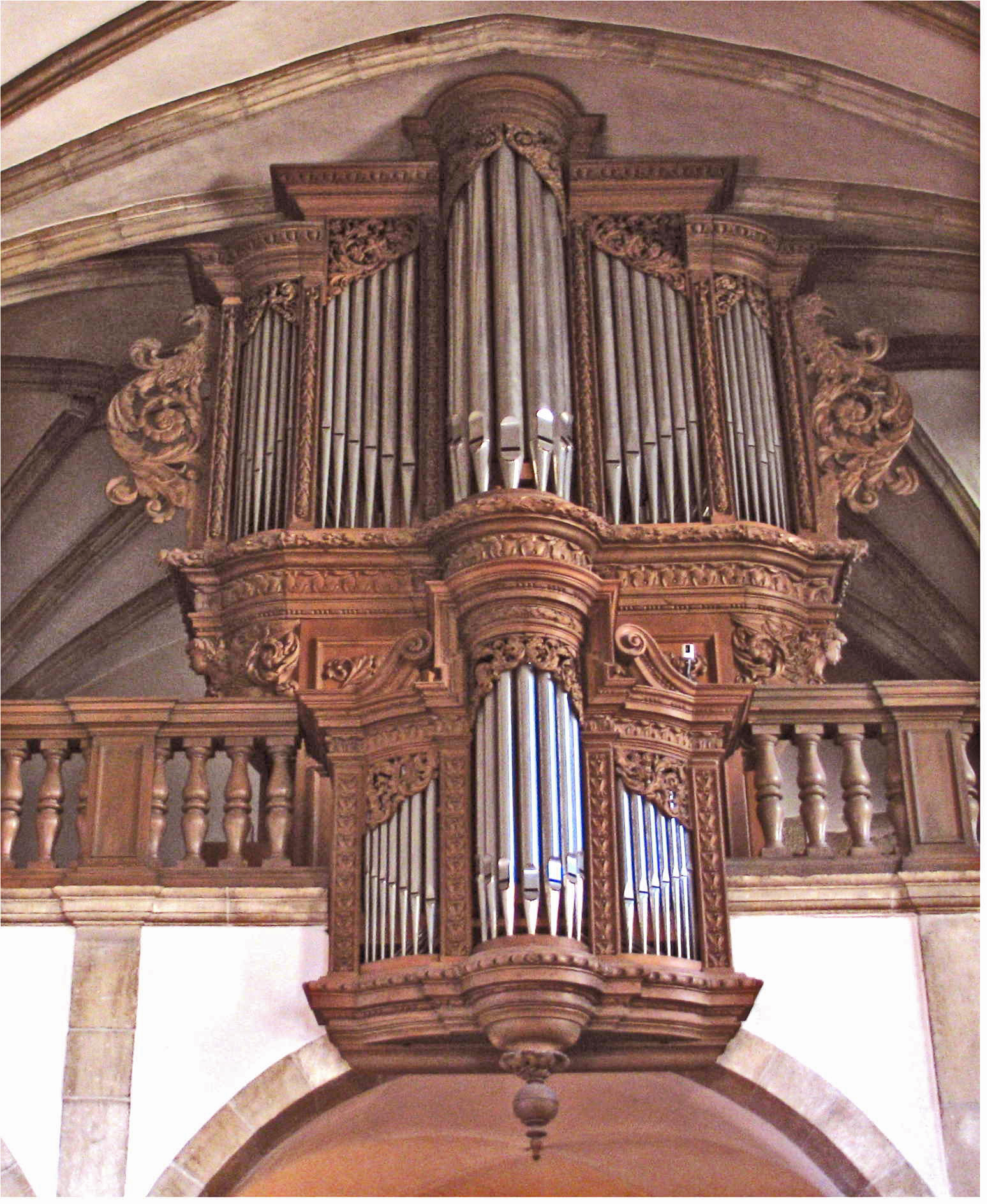 Luxembourg City: organ of église Saint-Michel in the city center.